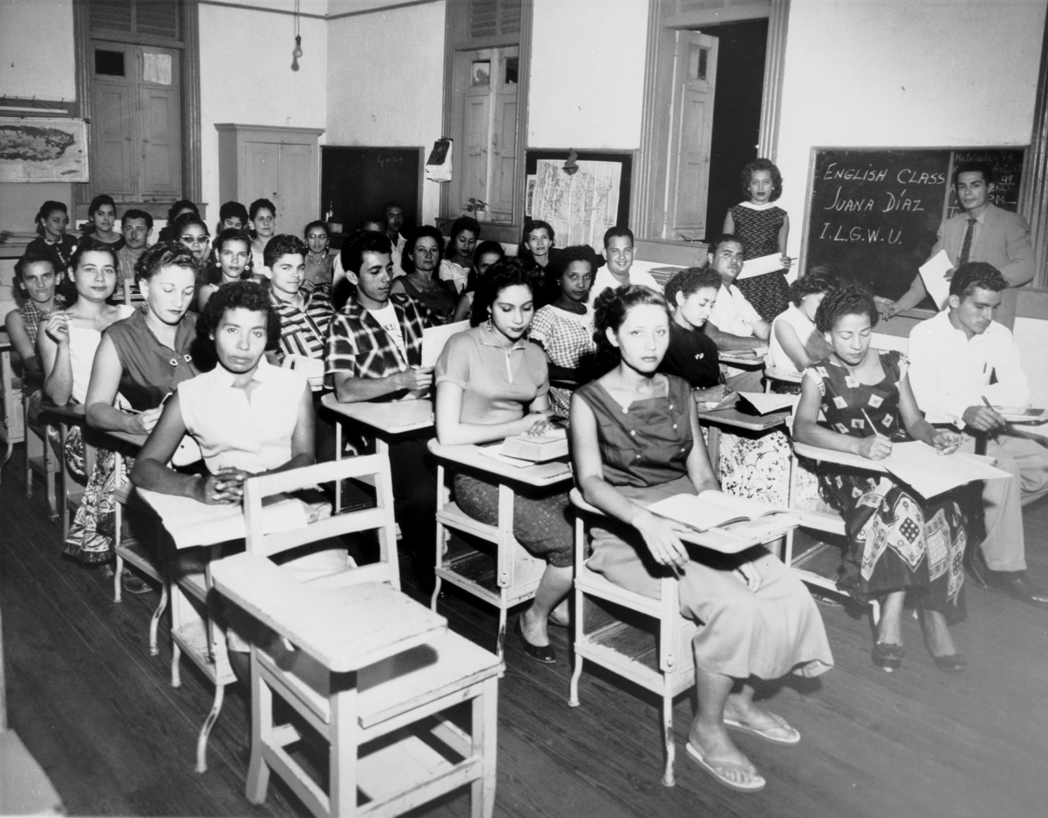 Title: English class for Spanish speakers in Juana Diaz, Puerto Rico, March 1, 1968. Date: 1968 Photographer: Unknown Photo ID: 5780PB29F3H Collection: International Ladies Garment Workers Union Photographs (1885-1985) Repository: The Kheel Center for Labor-Management Documentation and Archives in the ILR School at Cornell University is the Catherwood Library unit that collects, preserves, and makes accessible special collections documenting the history of the workplace and labor relations. Notes: No additional information available. Copyright: The copyright status of this image is unknown. It may also be subject to third party rights of privacy or publicity. Images are being made available for purposes of private study, scholarship, and research. The Kheel Center would like to learn more about this image and hear from any copyright owners who are not properly identified so that we may make the necessary corrections. Tags: Kheel Center for Labor-Management Documentation and Archives,Cornell University Library,Education, Puerto Ricans, Women